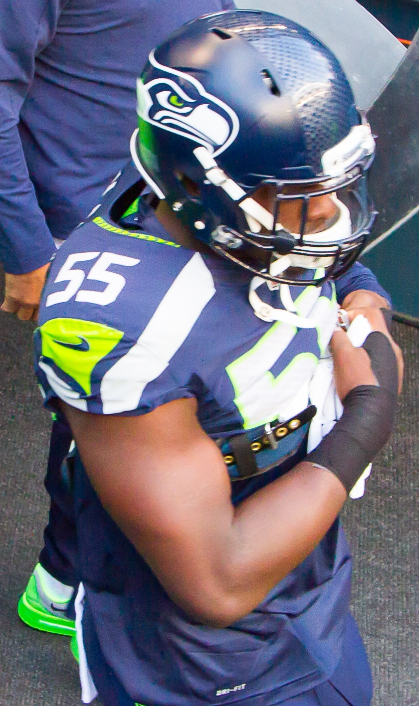 2015 preseason